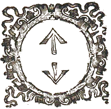 Bogoria coat of arms by Wacław Potocki